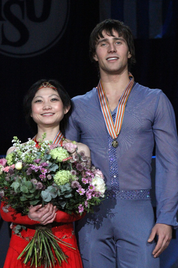 Yuko Kavaguti & Alexander Smirnov during the pairs medals ceremony at the 2010 European Championships.